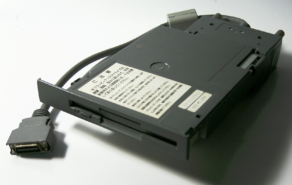 Personal Computer PC9821_FDD_NEC Japan